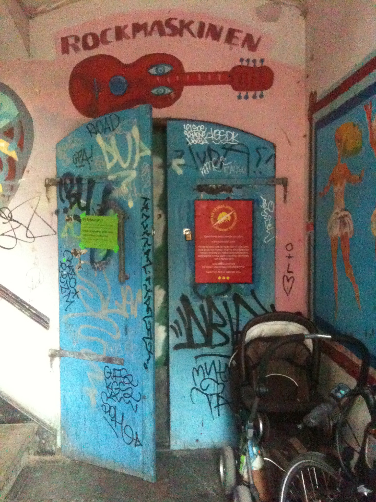 Rockmaskinen - Christiania - København - Old Entrance